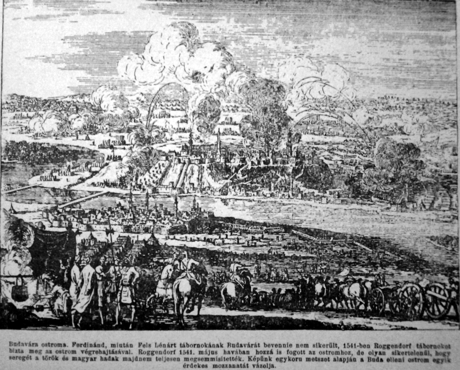 Battle of Buda Castle in 1541